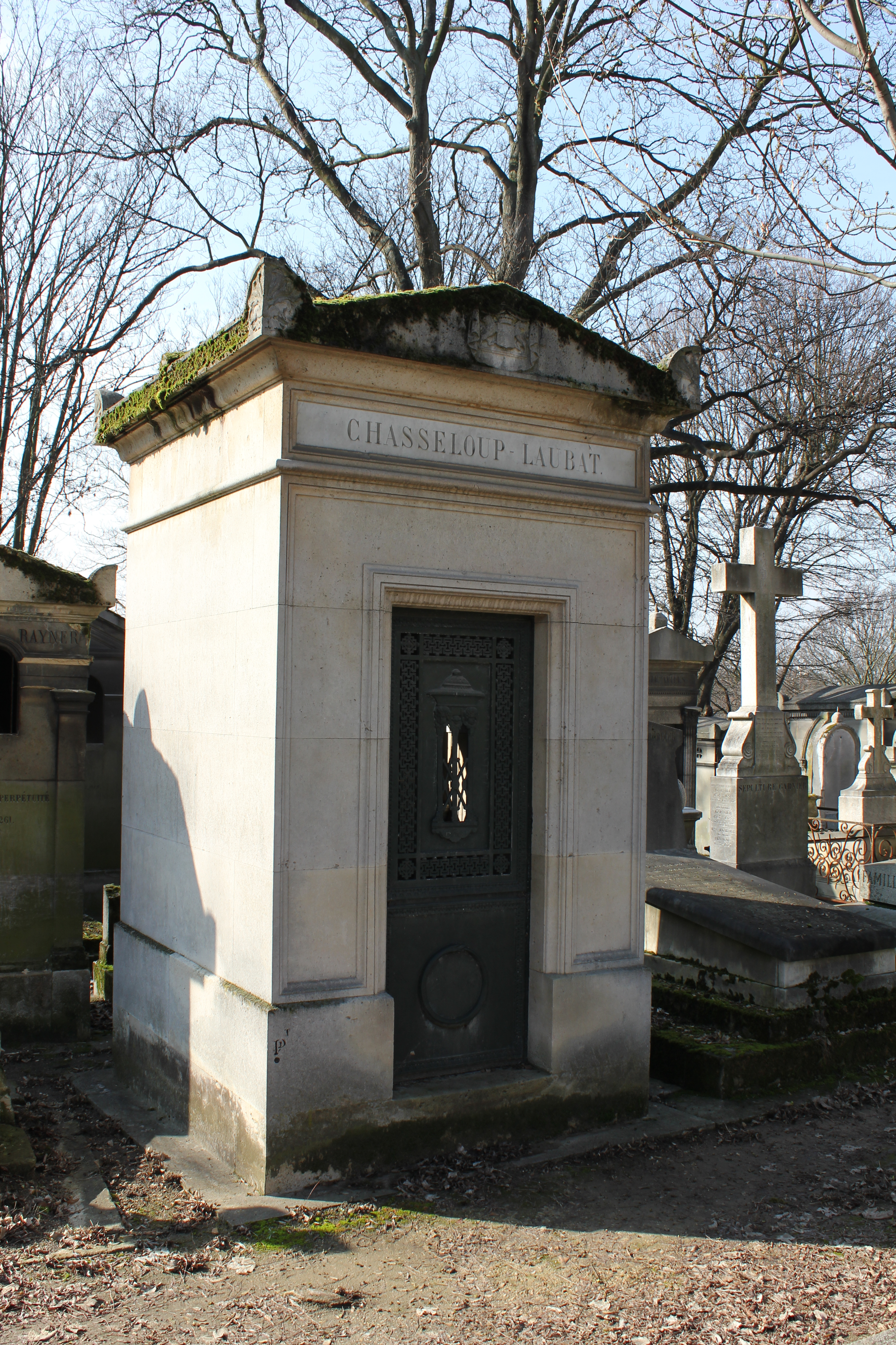 Chasseloup-Laubat's tombstone in Père Lachaise Cemetery, in Paris.